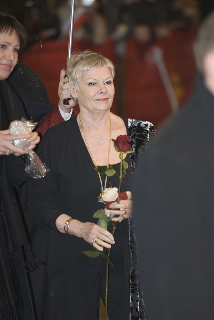 Dame Judi Dench, arrival for the premiere of "Notes on a scandal", Berlinale palace, Potsdamer Platz, Berlin